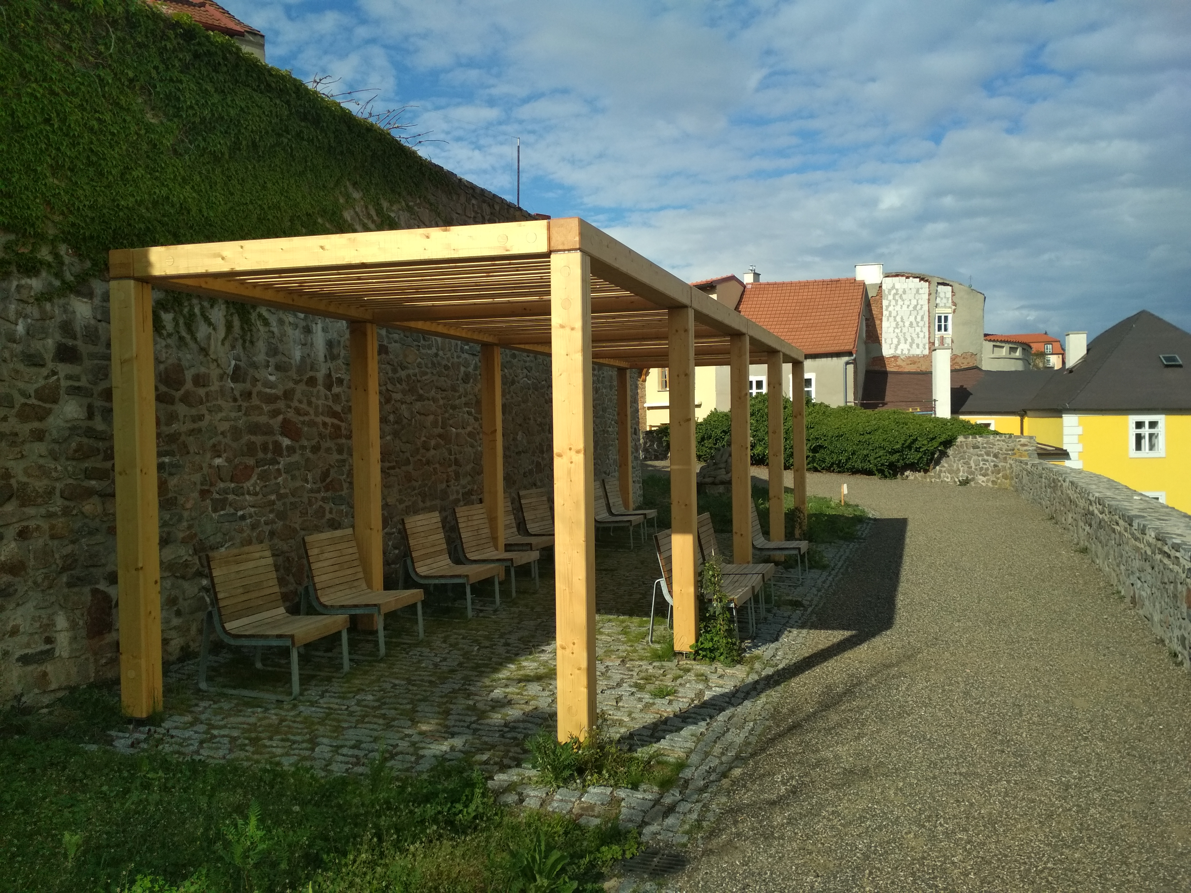 City walls of Kadaň after reconstruction in May 2020.